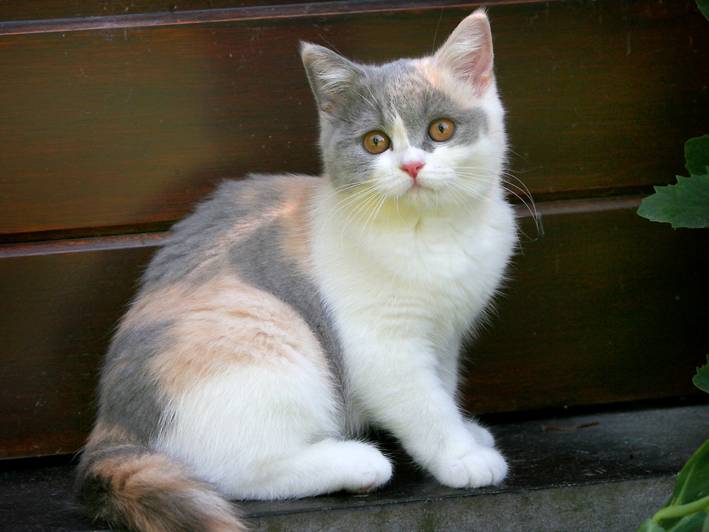 chat British Shorthair Tricolore